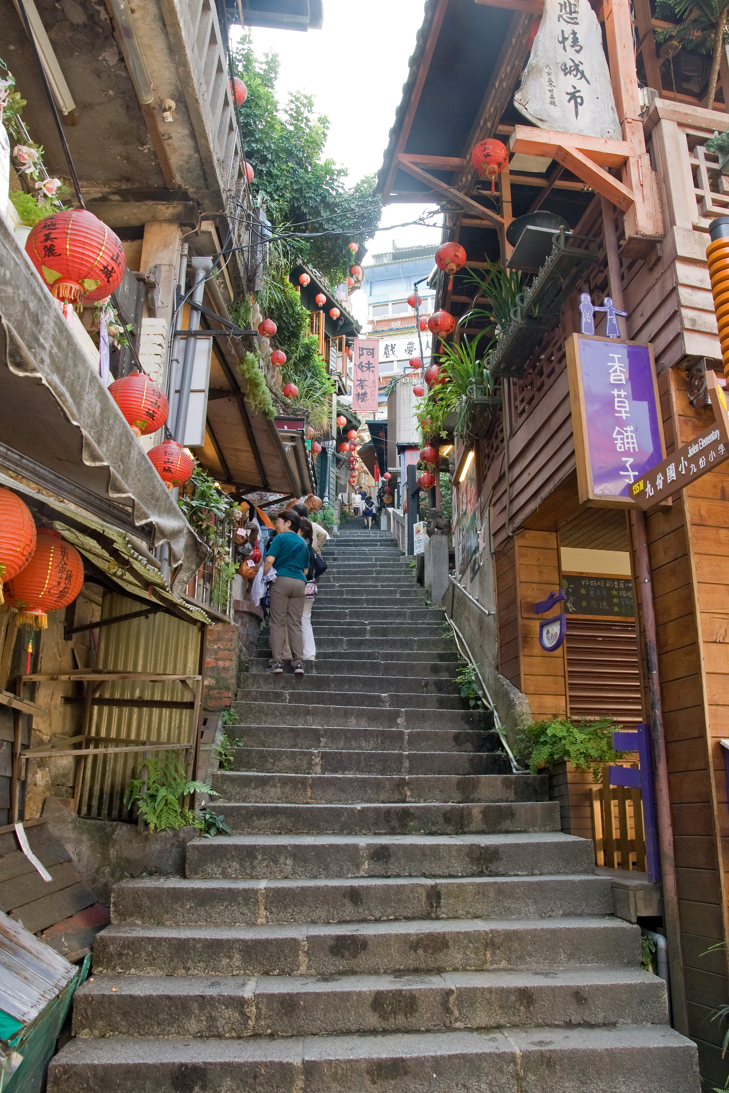 The streets of Jioufen, New Taipei, Taiwan.